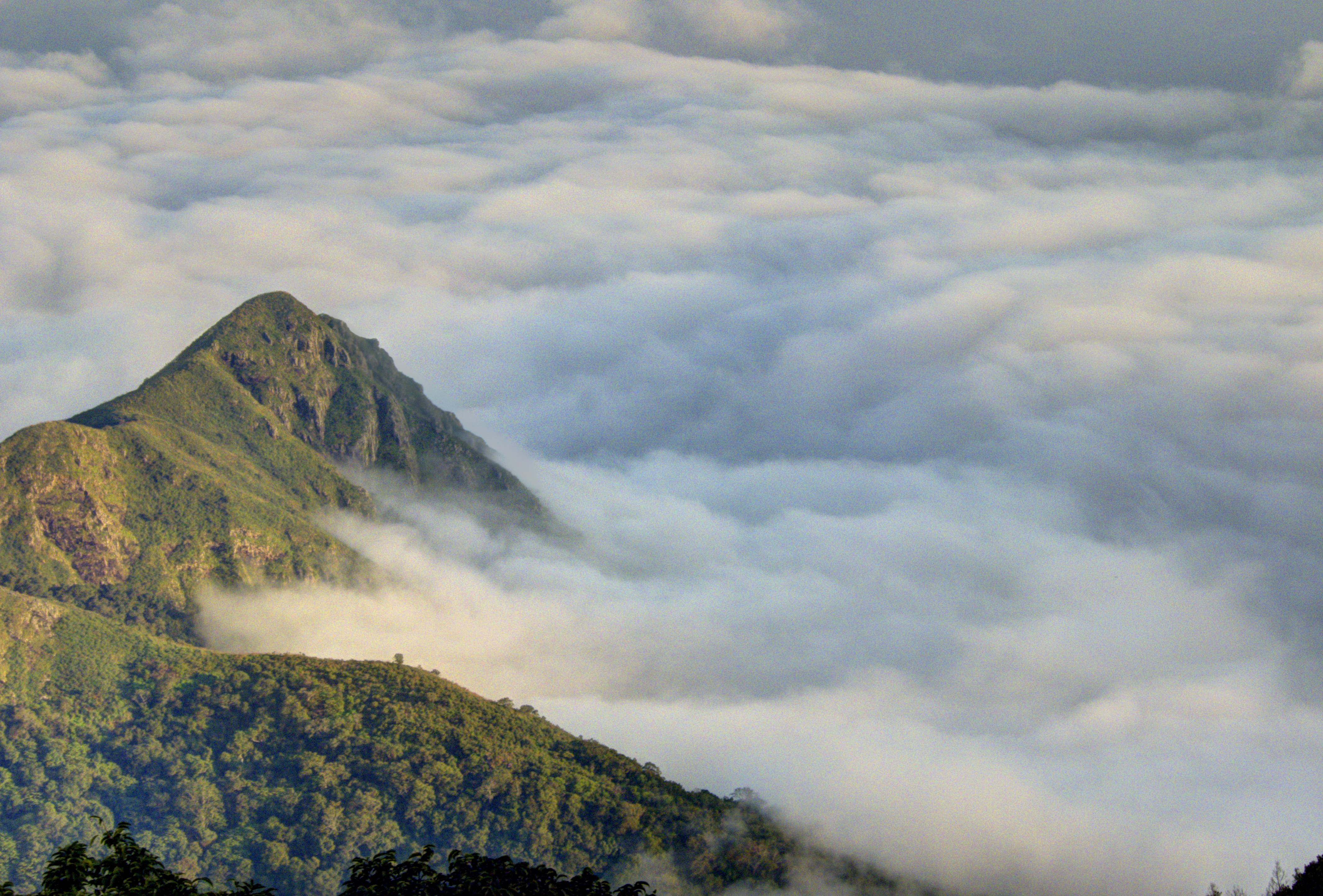 View from the Nilgiris towards Attapadi, Nilgiris. Montane cloud forest habitat.